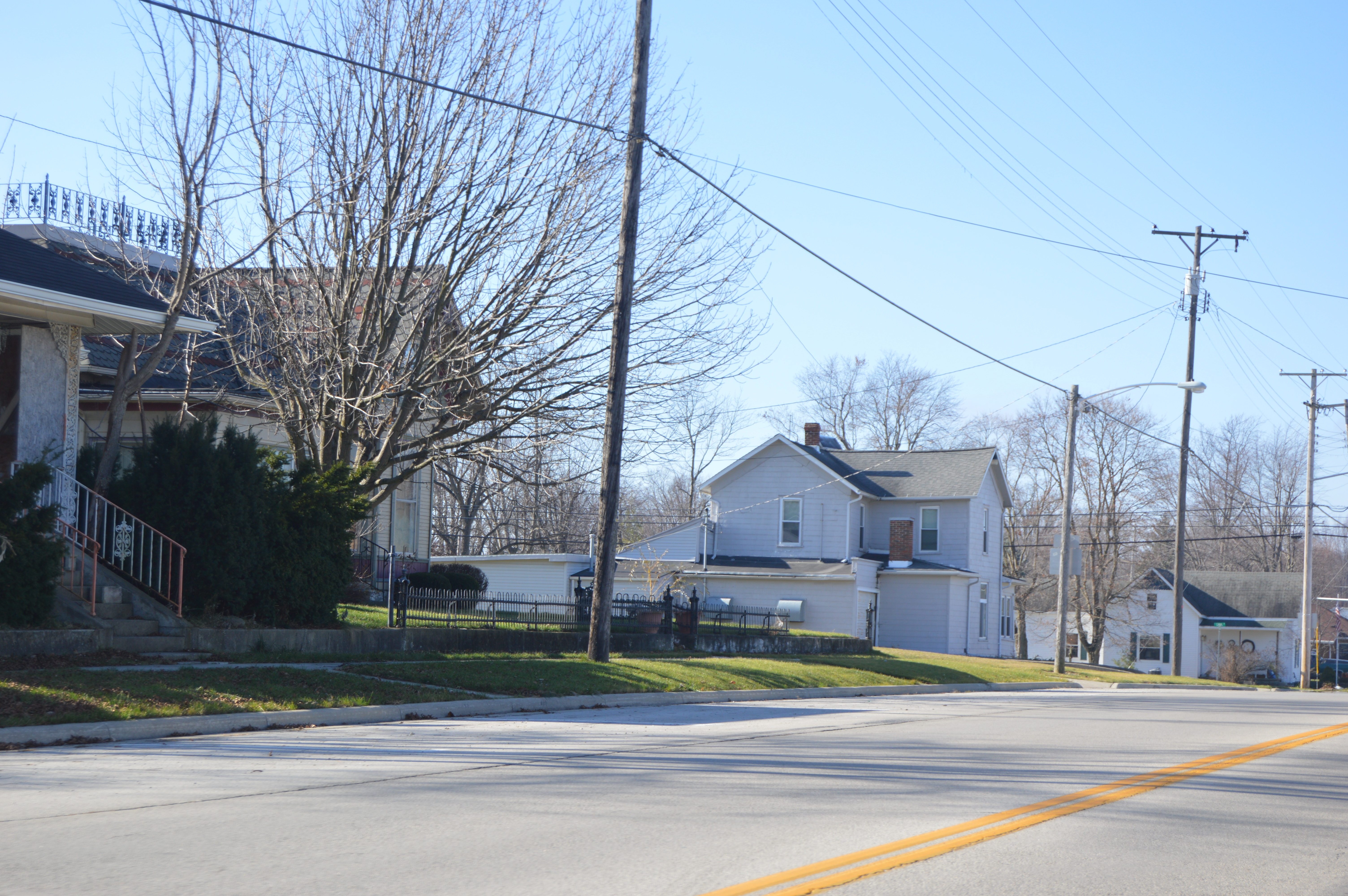 Houses on the southern side of Main Street (State Route 219) west of the High Street interection in Montezuma, Ohio, United States.